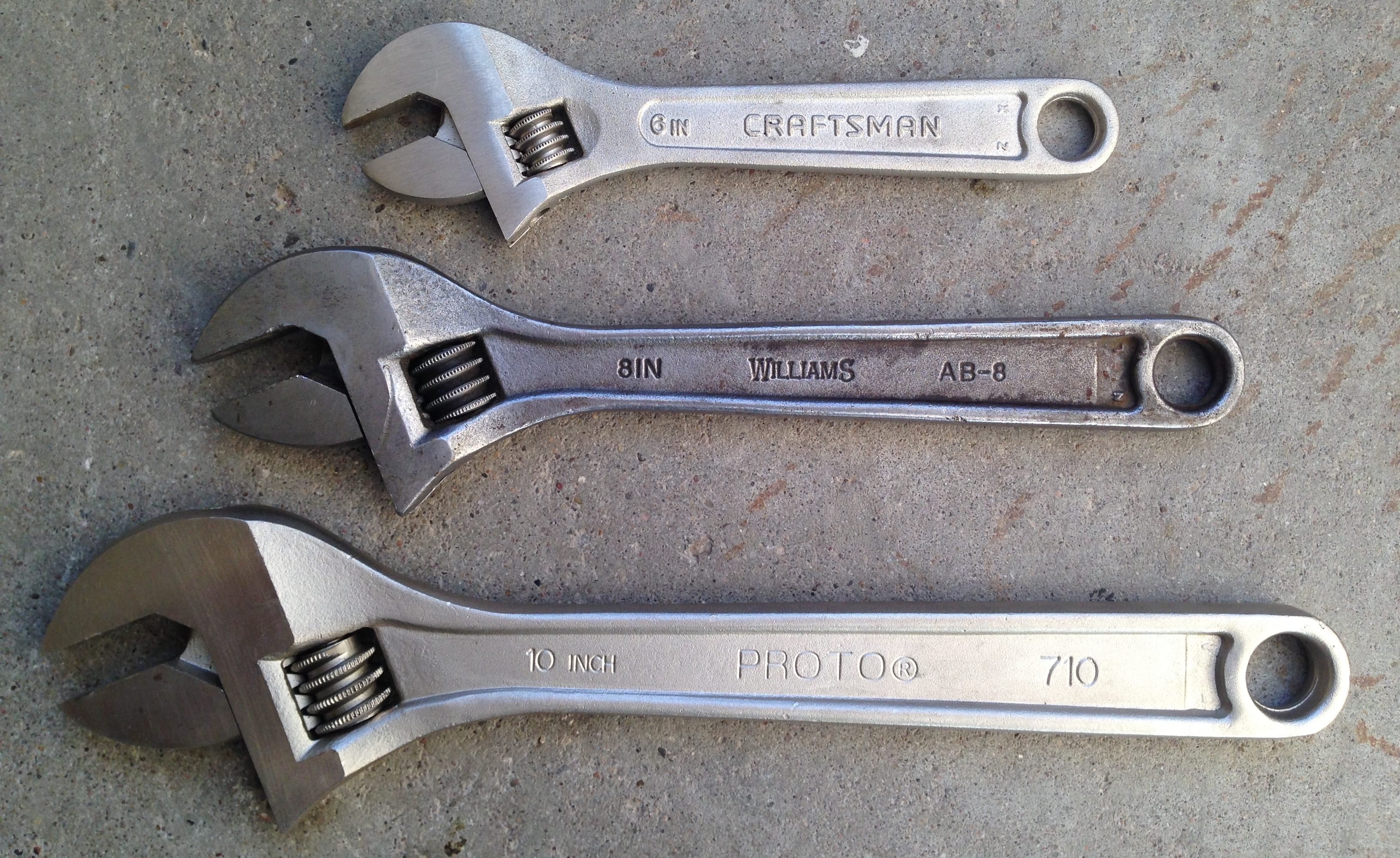 6" Craftsman, 8" Williams, and 10" Proto adjustable wrenches, manufactured by Western Forge.